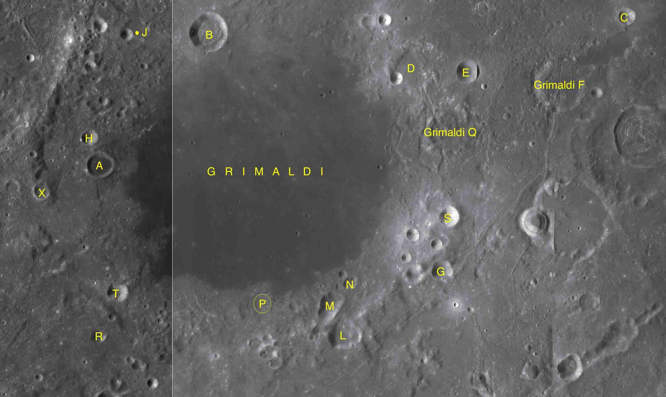 Parts of the charts LAC-73, LAC-74 used for the presentation